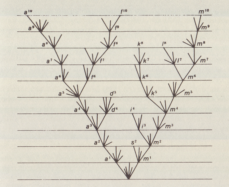 A cropped version of the single illustration (full version) in Charles Darwin's 1859 book On the Origin of Species showing the left part of the diagram, as it appears in Daniel Dennett's book Darwin's Dangerous Idea. It is found in chapter ten (figure 10.9), "Bully for Brontosaurus", in the section "Punctuated Equilibrium: A Hopeful Monster". Dennett contends that Darwin in fact held the punctuated equilibrium view himself, and that it was ironic that the book's single illustration showed steadily sloping ramps.